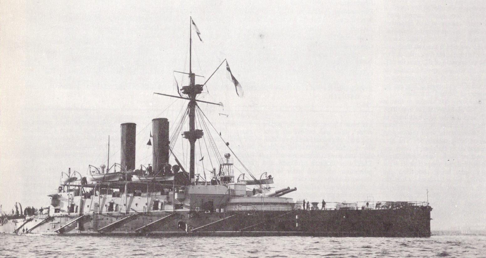 British battleship HMS Collingwood, photographed from her port quarter